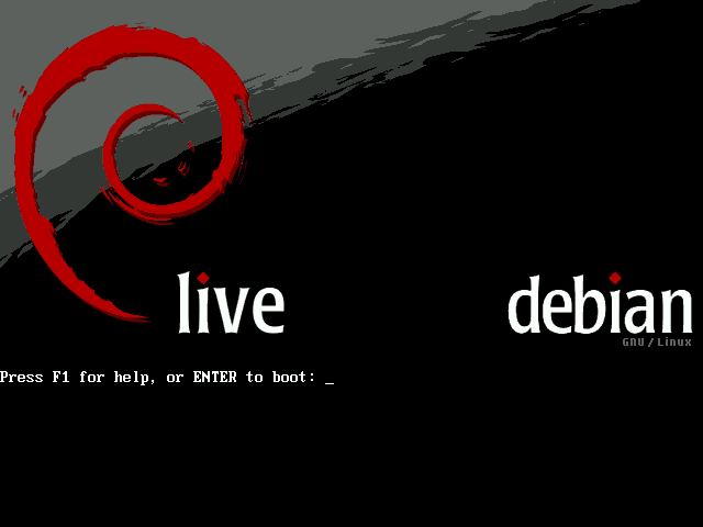 Start-up screen (syslinux) from a Debian Live system